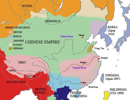 Map showing colonial powers' spheres of influence in Imperial China in early 20th century